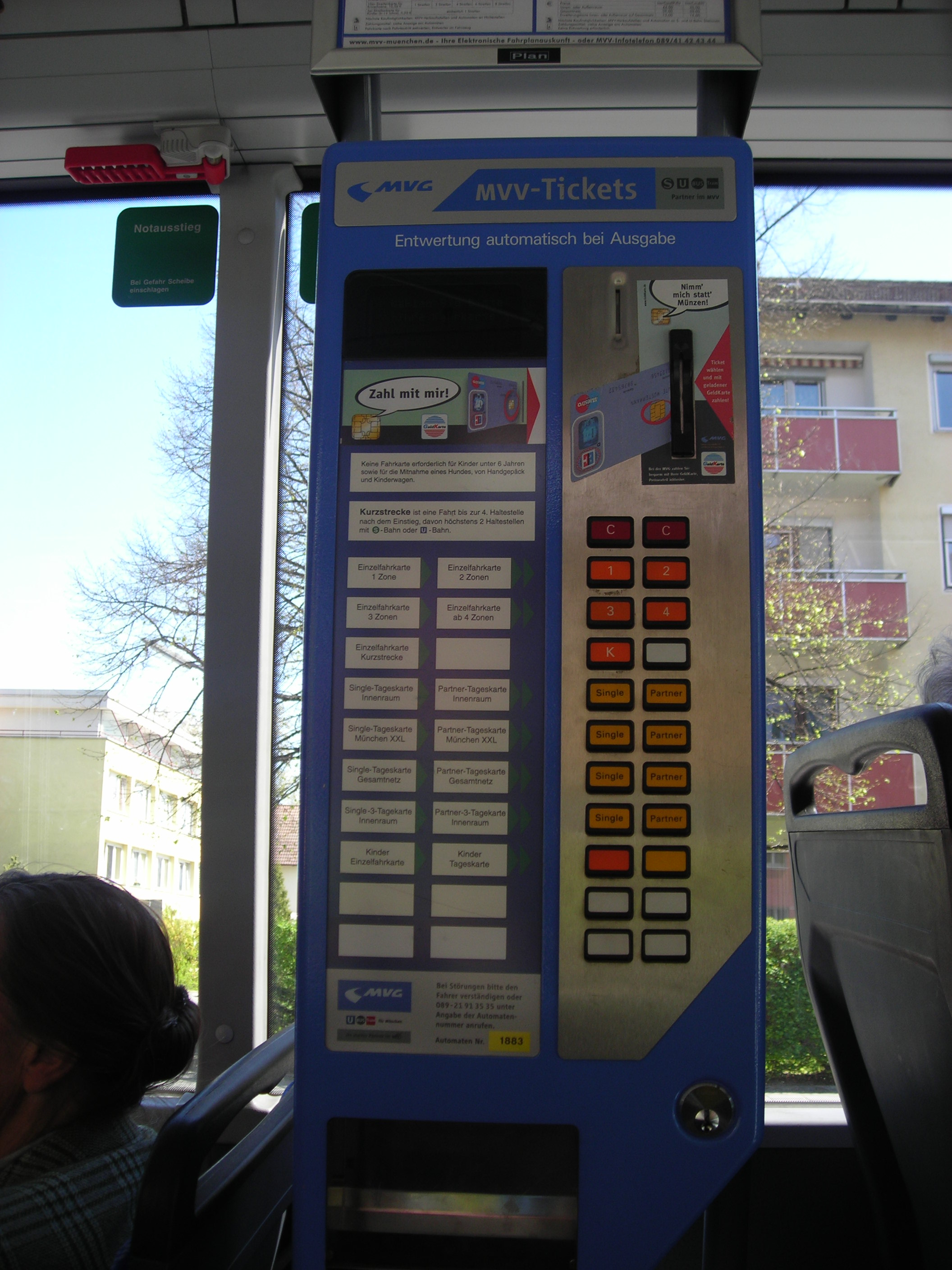 Ticket machine in a MVG bus (Munich, Germany).